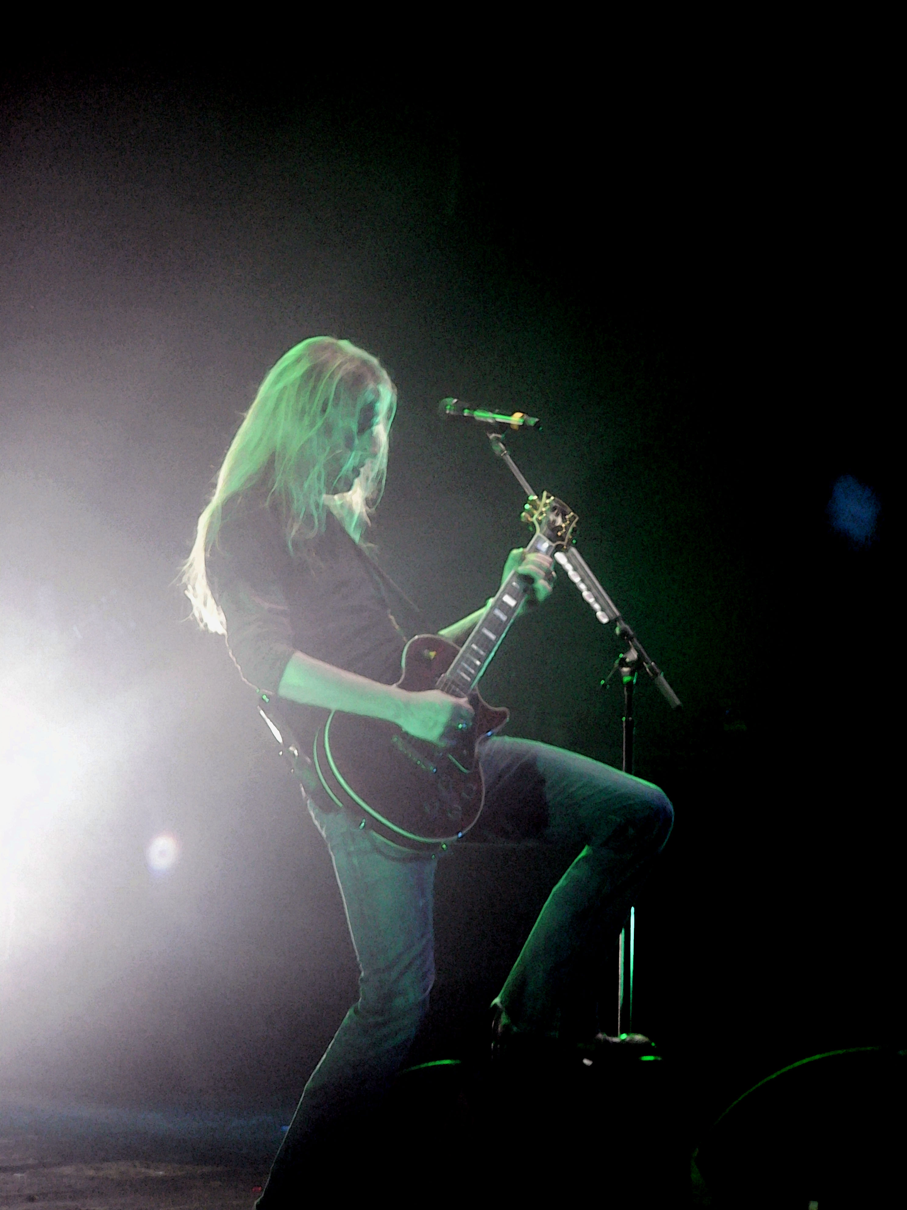 Jerry Cantrell live at Brixton Academy, London, 2009